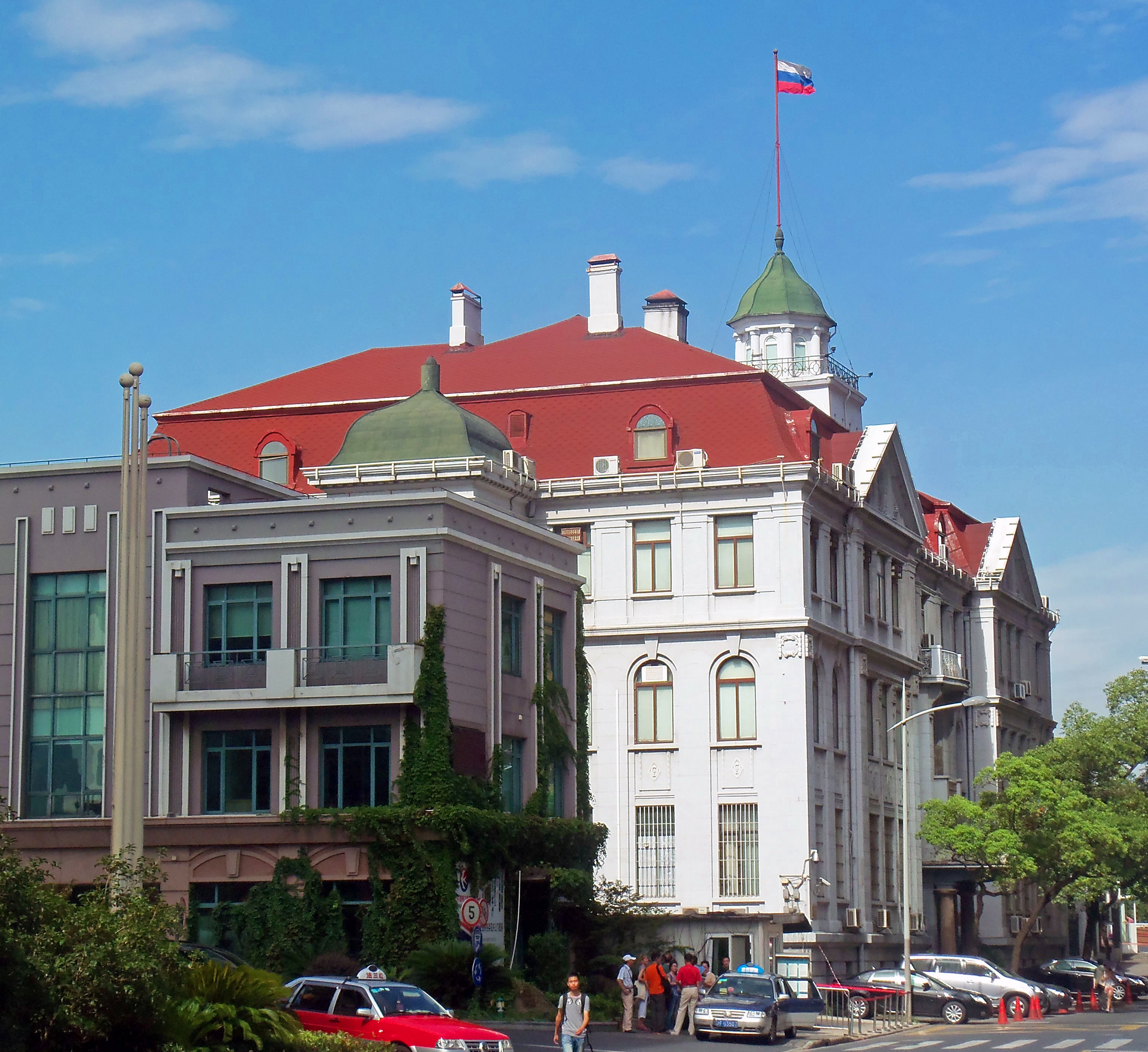 View of Russian consulate in Shanghai from southeast, along Huangpu Road